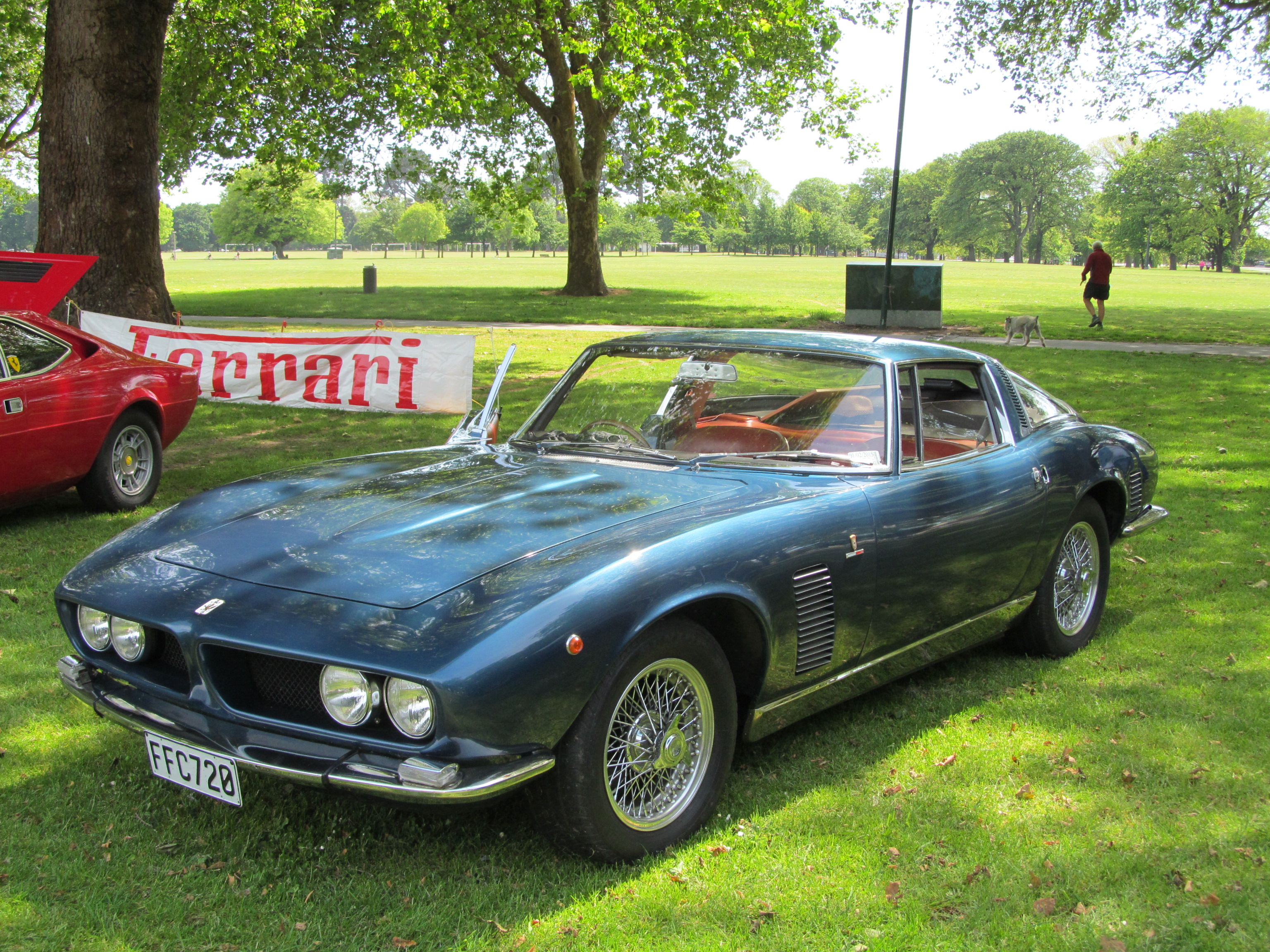 I was absolutely gobsmacked to see this at Italians in the Park yesterday - I had no idea there were any Isos in New Zealand. This Grifo is the exact car that was displayed at the 1966 Earl's Court Motor Show in London, and is one of very few RHD Grifos ever built. It arrived in New Zealand in late 2009 from the UK. I can't even begin to imagine how much it is worth in this condition. And then I saw what was next to it...